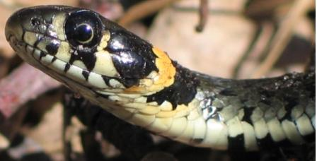 Transferred from sv.wikipedia to Commons by Maksim. The original description page was here. All following user names refer to sv.wikipedia. Kommer från Tyska Wikipedia Där står: Beschreibung: Ringelnatter Fotograf: Darkone am 14. September 2003